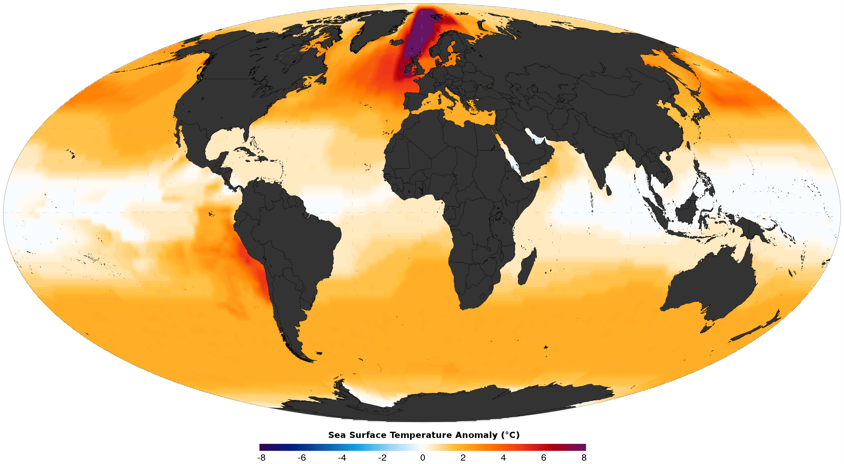 Pliocene sea surface temperature anomaly. Data